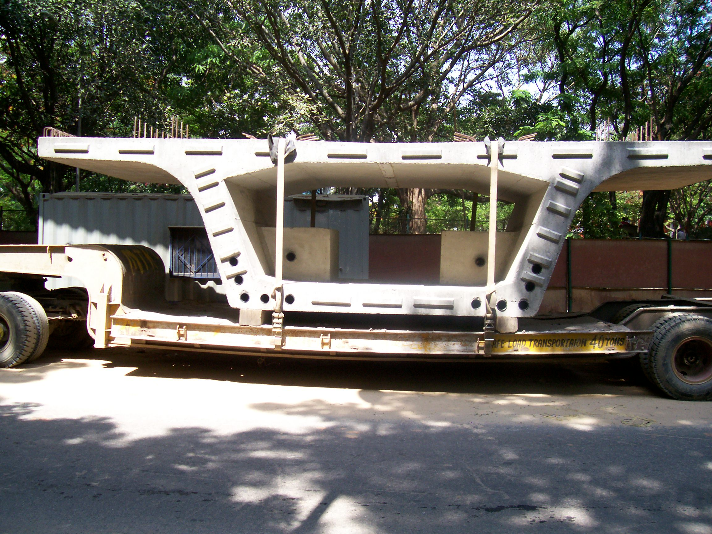 Reinforced Concrete Cement, Precast Girder used for the construction of the Namma Metro in Bangalore.